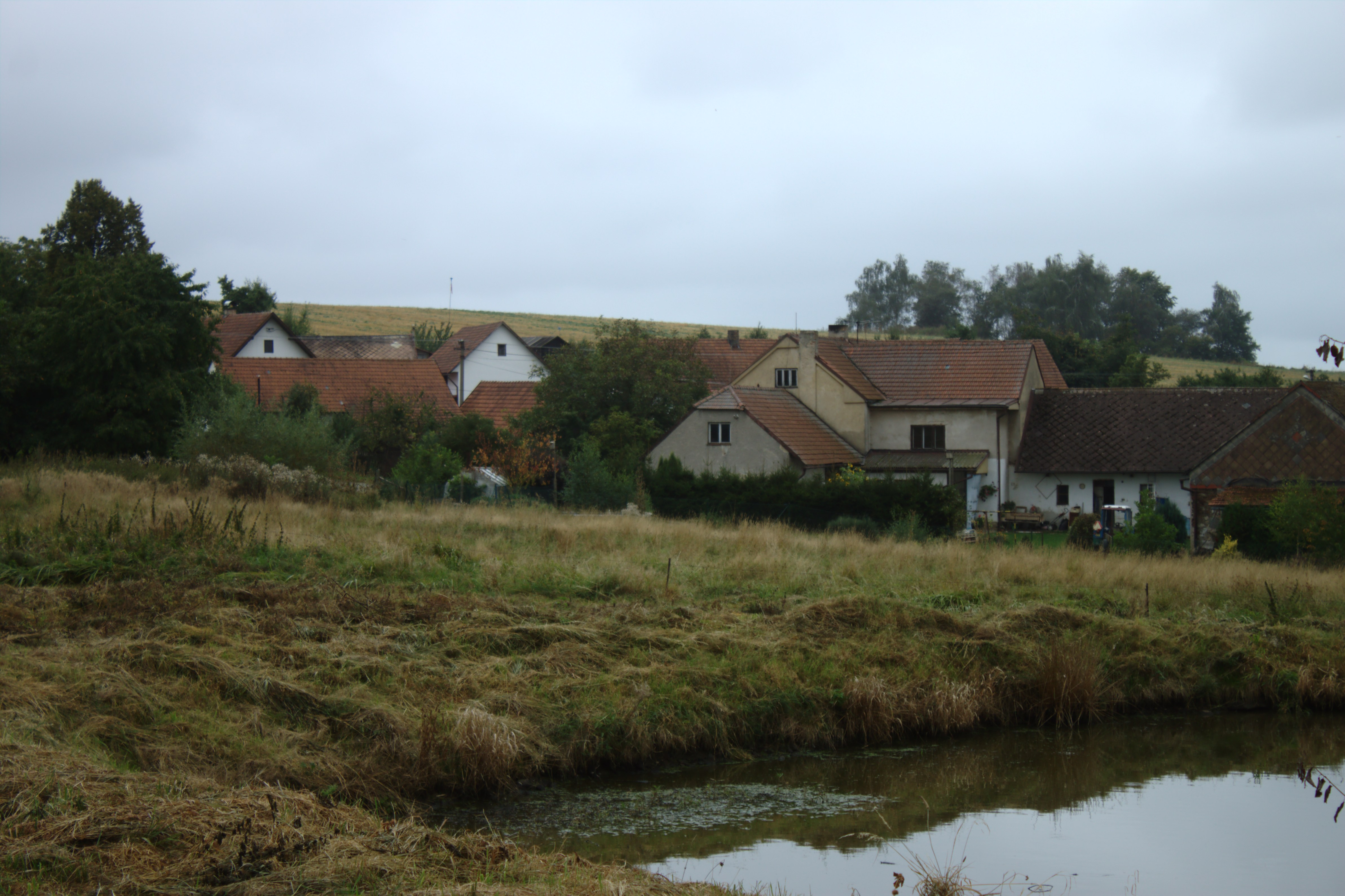 Budings next to a pond in Týmova Ves, Vysočina Region, CZ